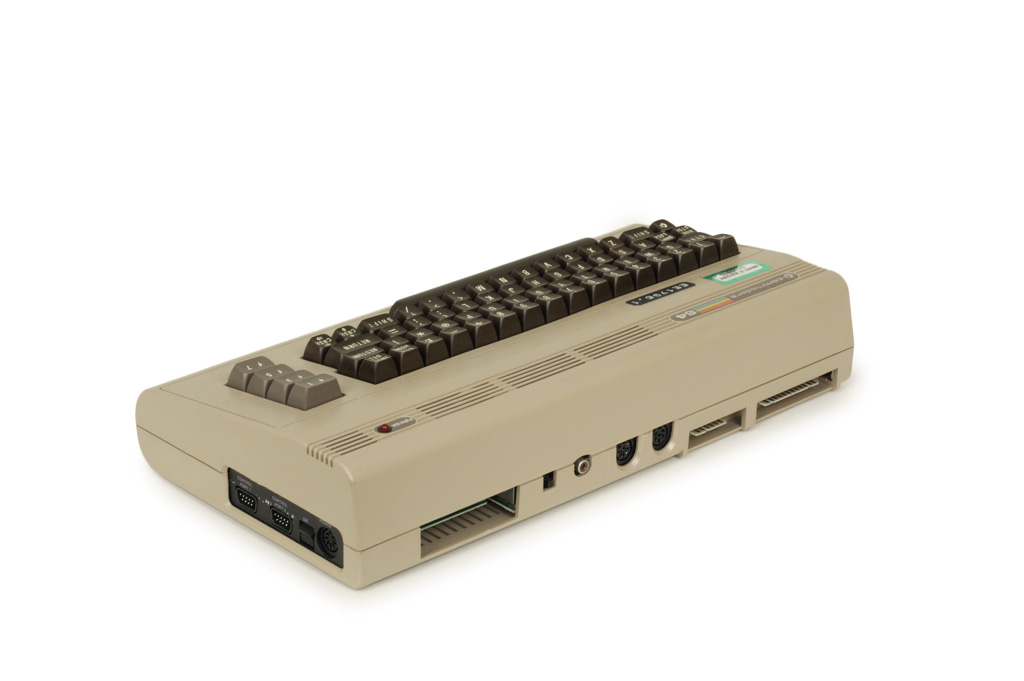 the rear end of the C64. visible is the cartridge slot, expansion ports, and the game ports on the side.